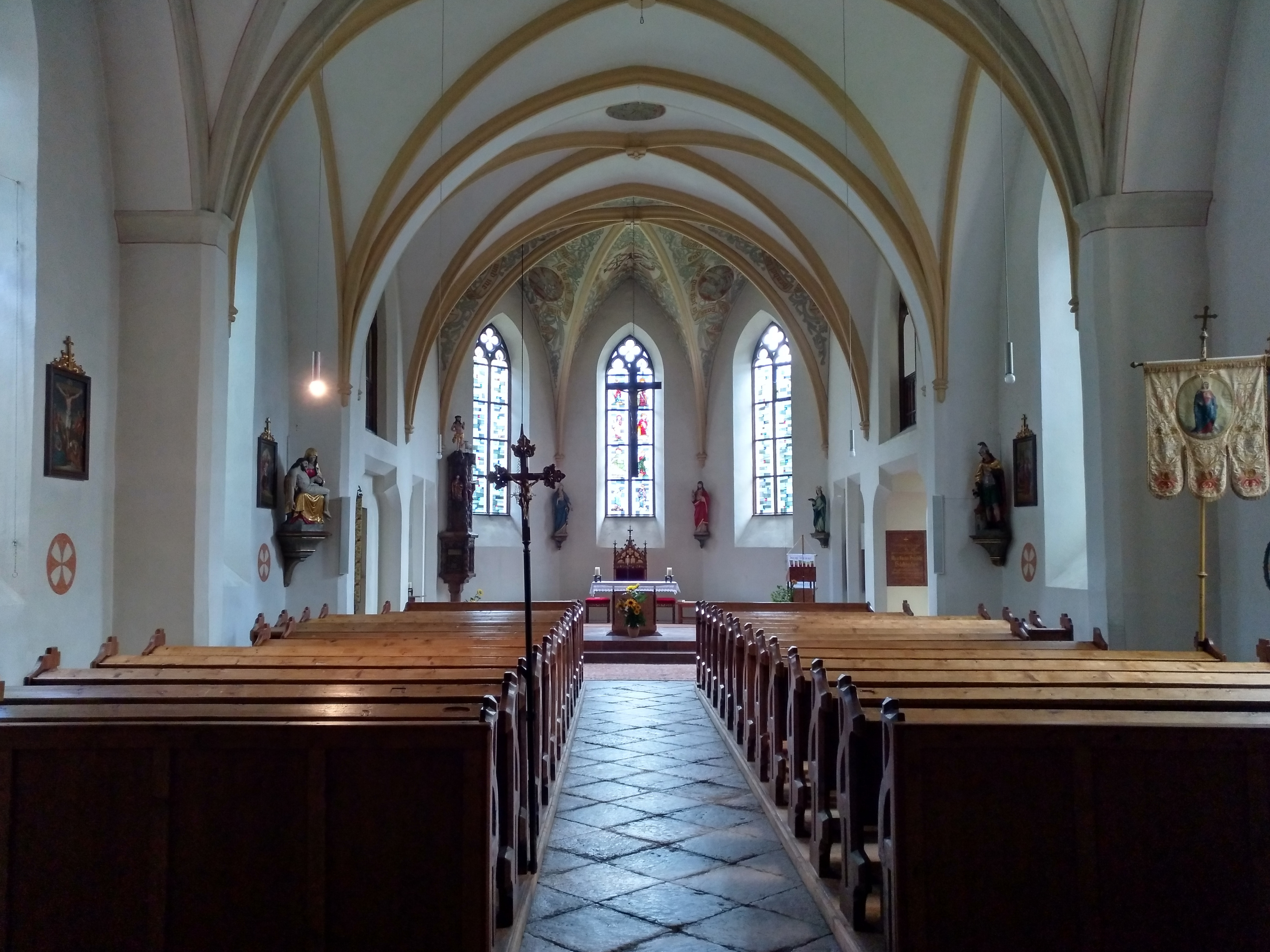 Interior of the gothic parish church Saint Giles in Altaussee, Styria, Austria.